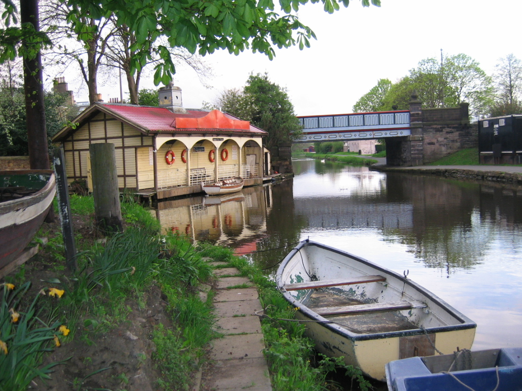 Edinburgh Canal Society boathouse and rowing boats, Union Canal, Scotland